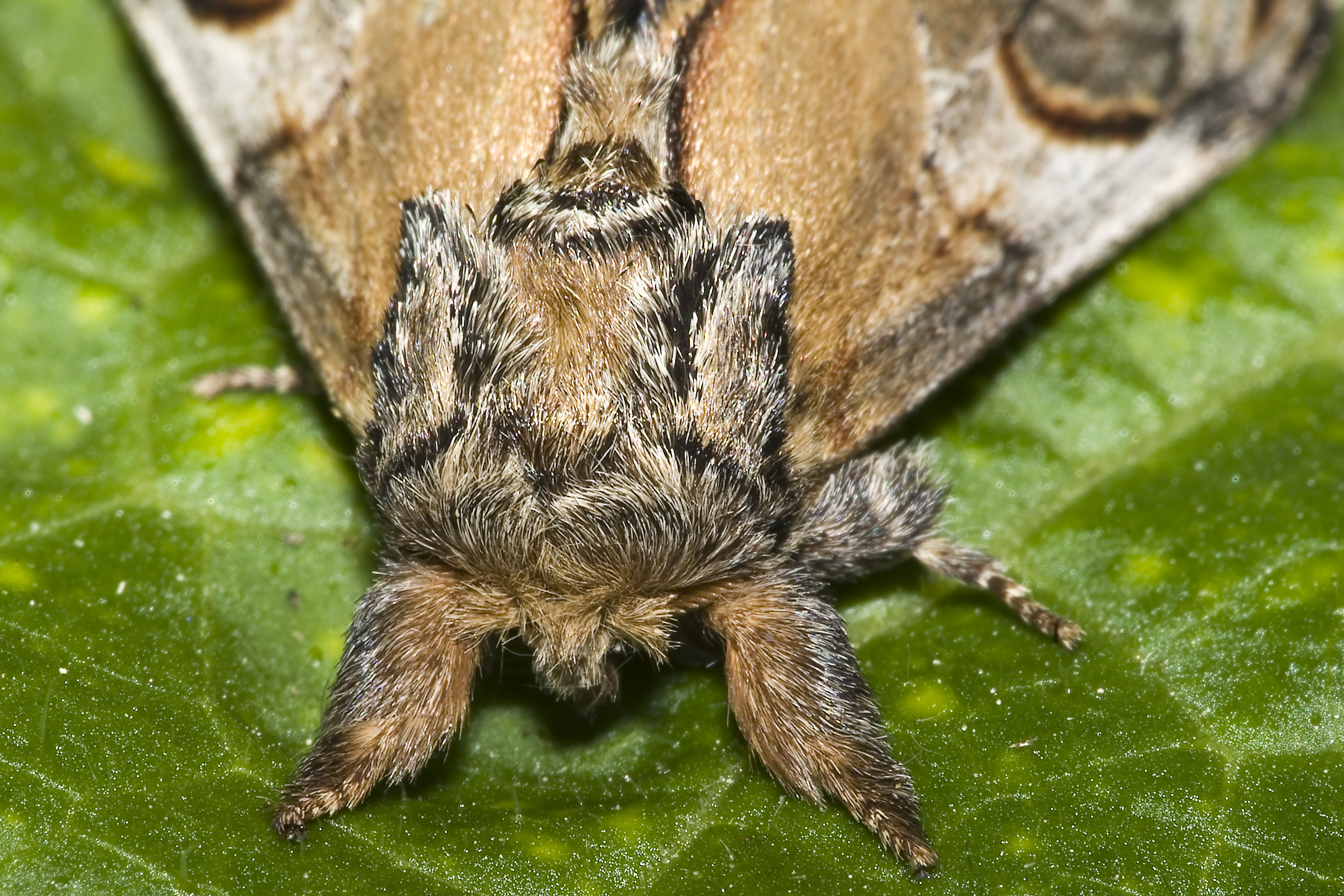 Pebble Prominent